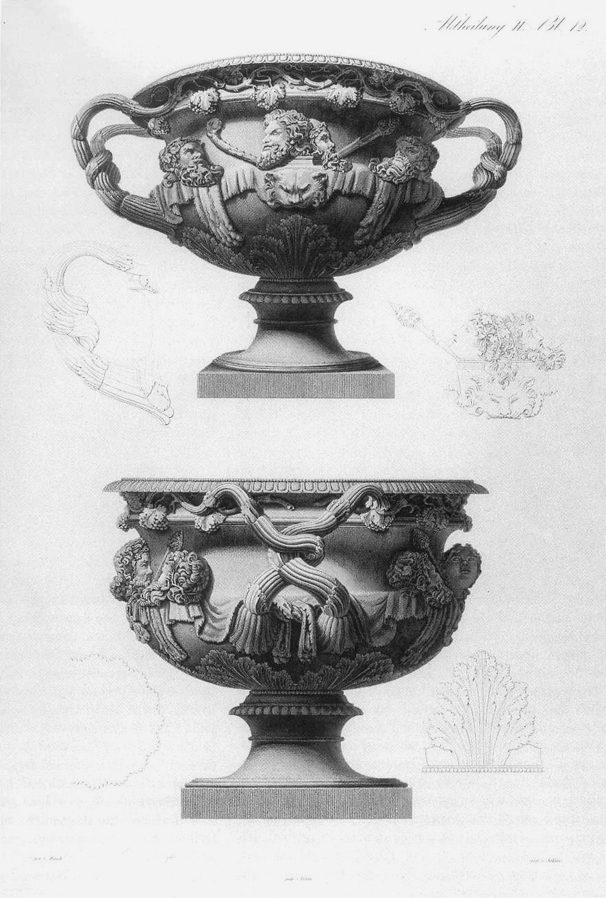 The so-called "Warwick-Vase", a famous antique marble-object, found in Tivoli/Italy in 1771. Restored by Bartolomeo Cavalucci following a design by Piranesi. Illustration from "Vorbilder für Fabrikanten und Handwerker" (Patterns for manufacturers and handicraftsmen), edited by Christian Peter Wilhelm Beuth and Karl Friedrich Schinkel.